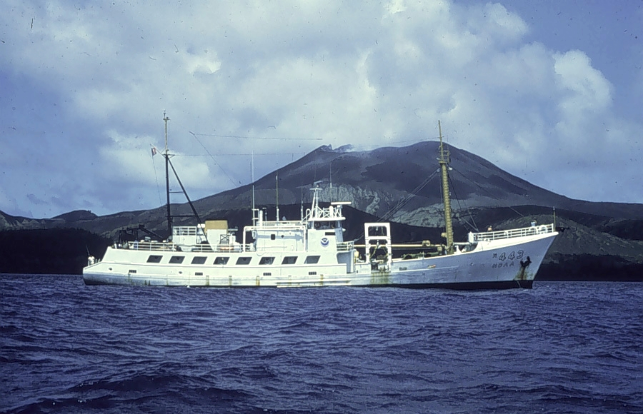 The National Oceanic and Atmospheric Administration fisheries research ship NOAAS Townsend Cromwell (R 443) hove to at Pagan in the Mariana Islands